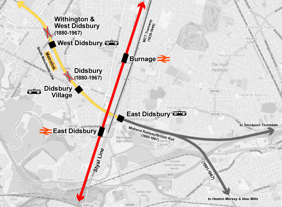 Map of transport in Didsbury, Manchester, UK, showing Metrolink, National Rail and former British Rail and Manchester Corporation Tramways routes This map may be incomplete, and may contain errors. Don't rely solely on it for navigation.